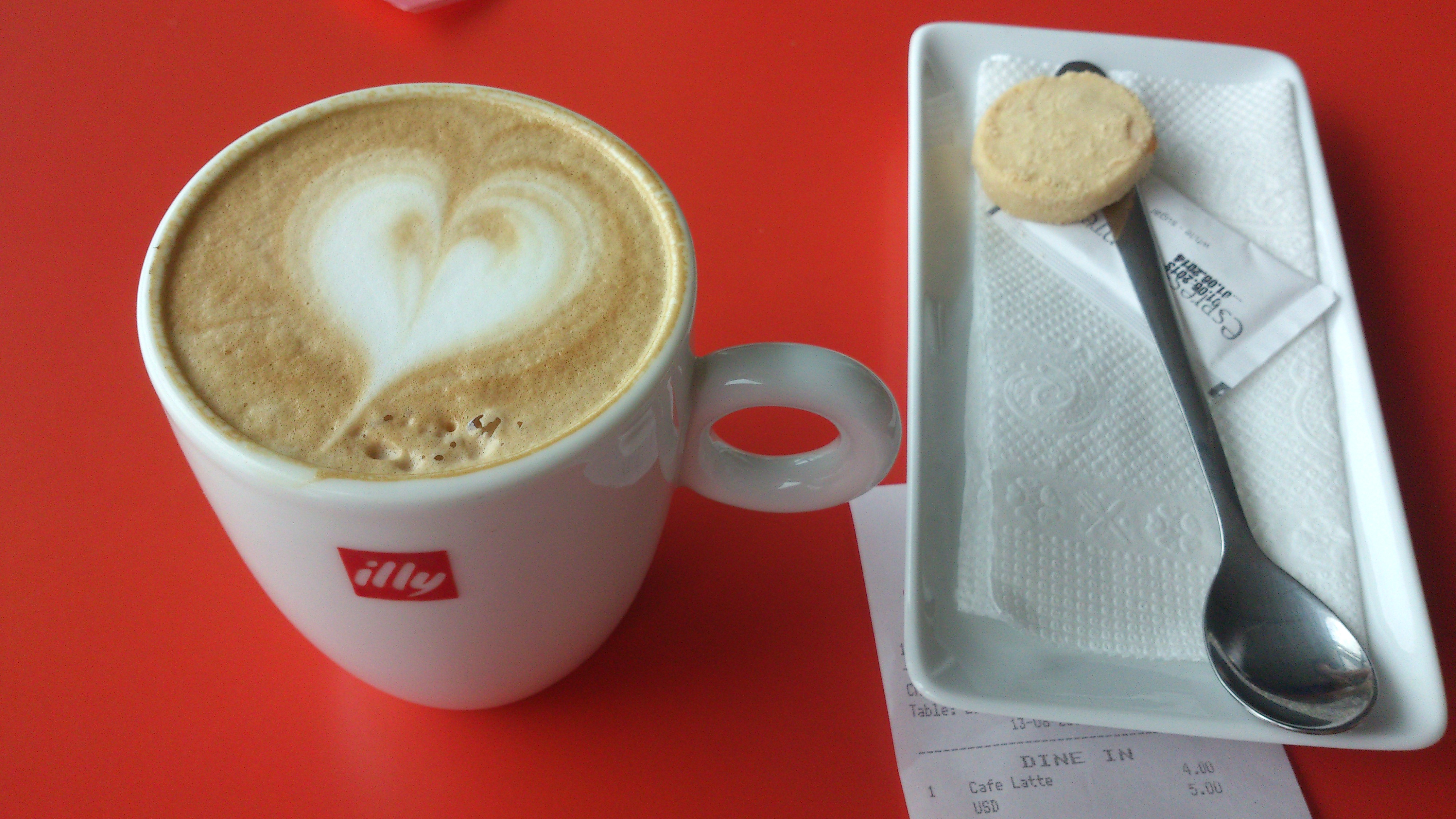 ILLY coffee latte in Vietnam Nhat International Airport 4F